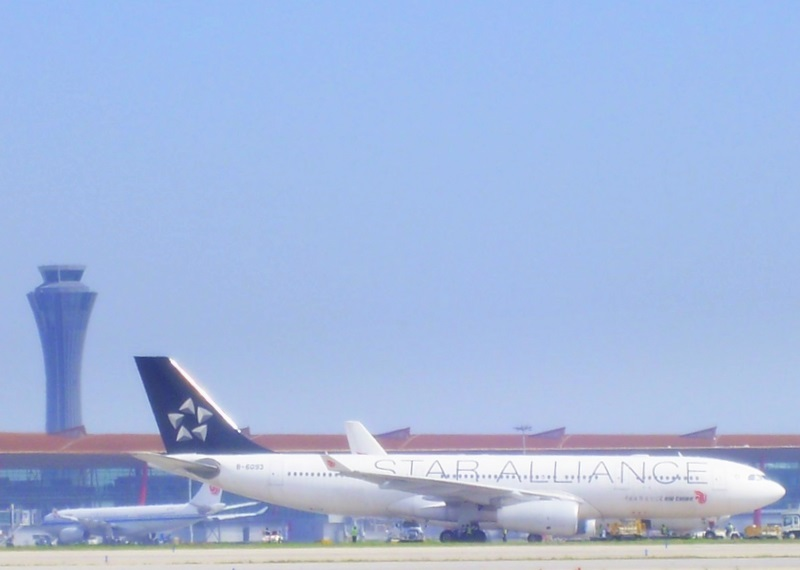 Air China Airbus 330 with Star Alliance livery seen at PEK